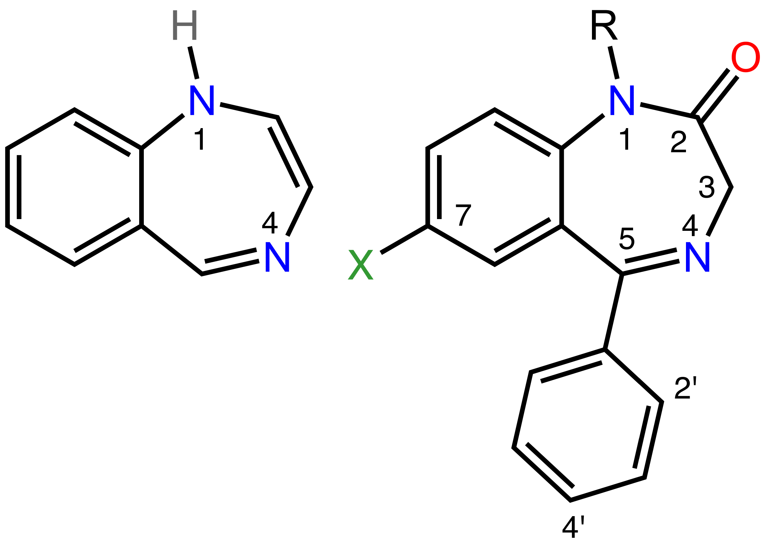 Core chemical structure of the benzodiazepine ring system.